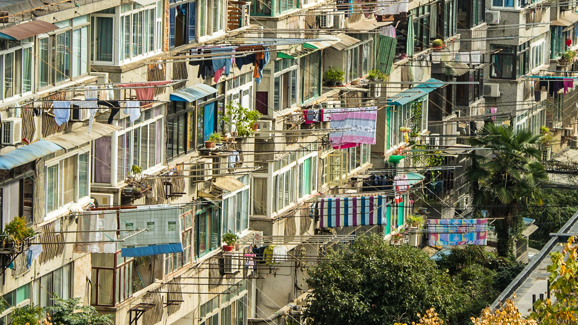 Simple housing estate in Shanghai